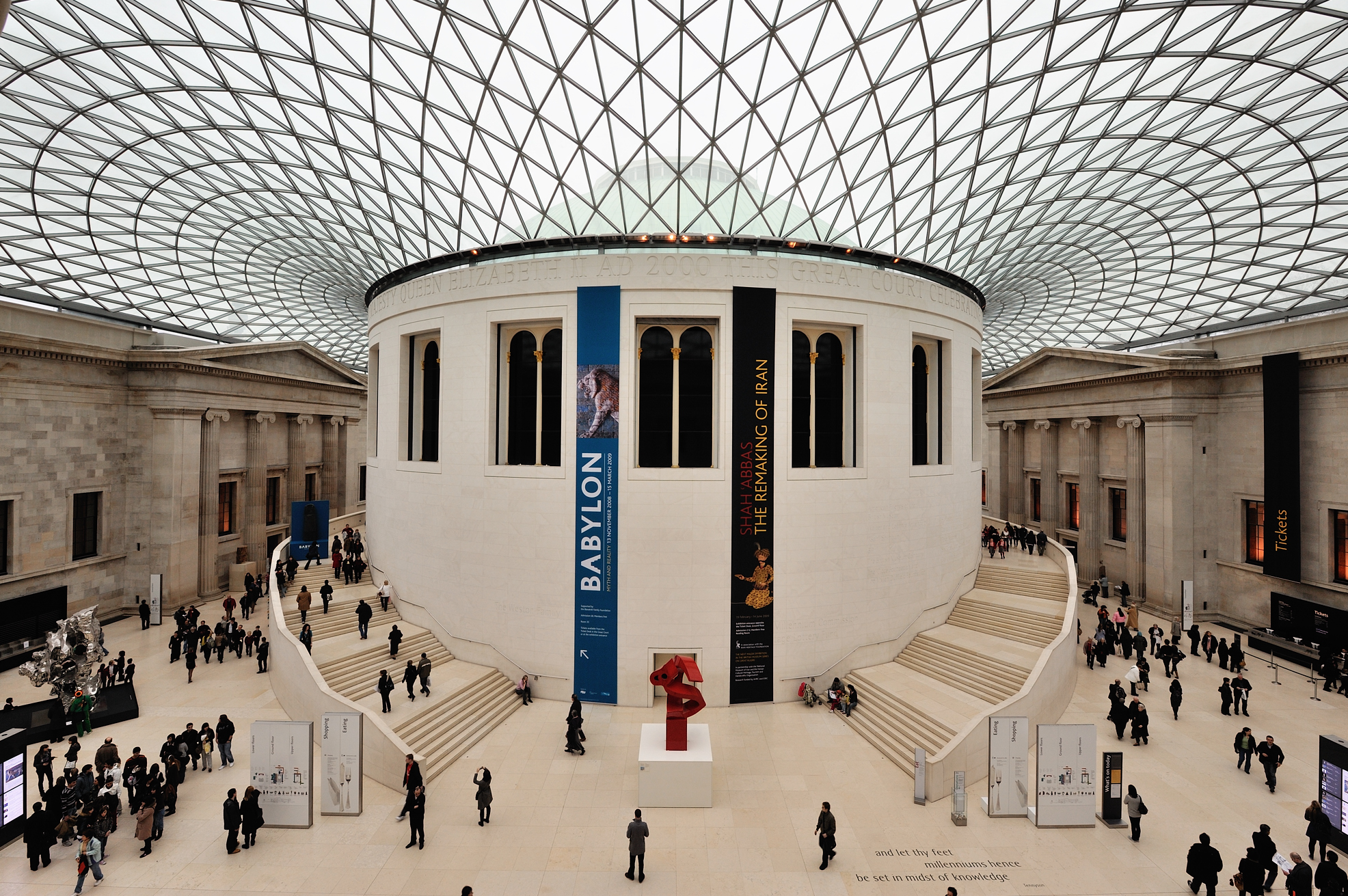 British Museum - Court and Glass Dome.